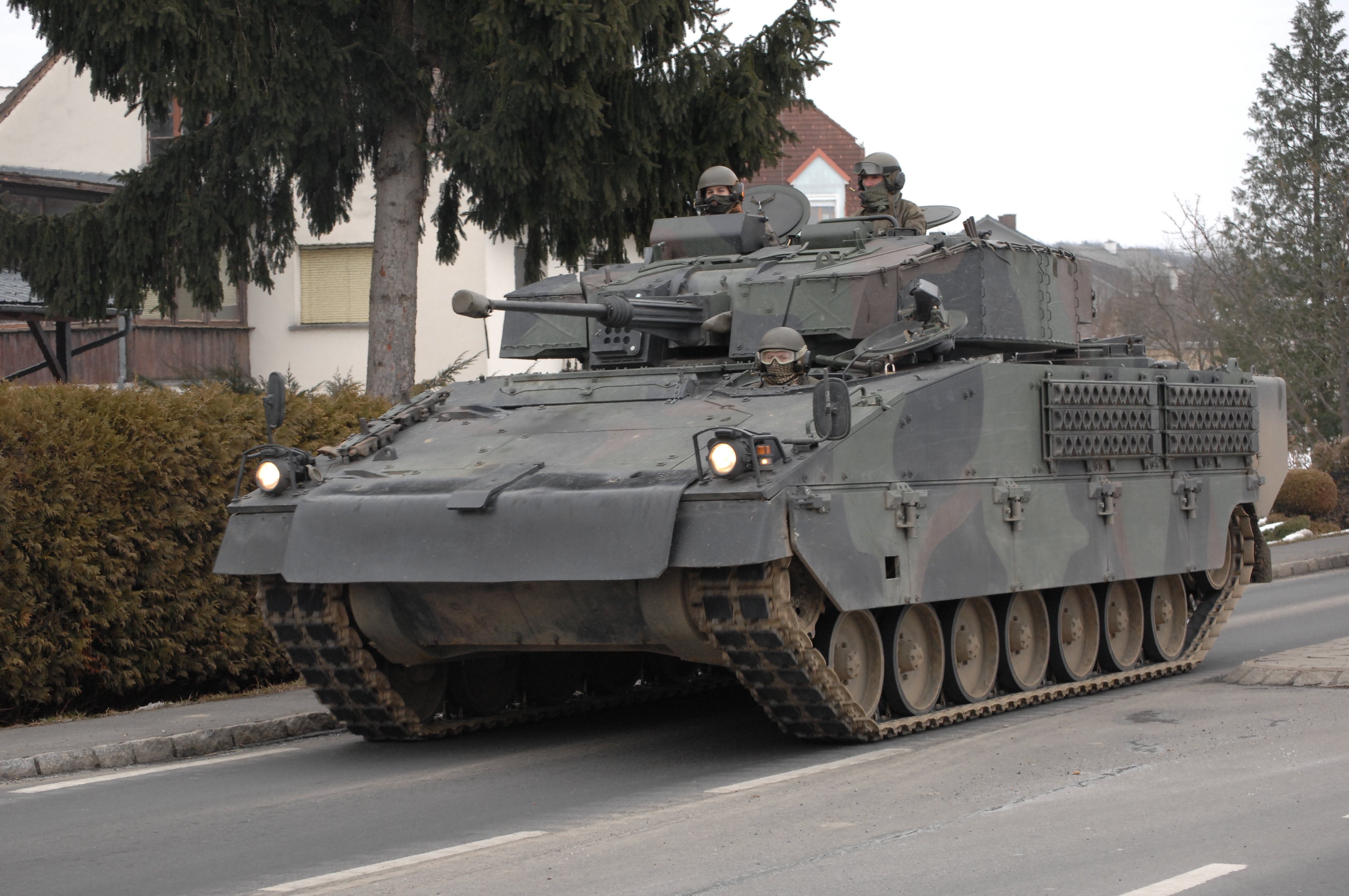 SPZ Ulan infantry fighting vehicles Austria